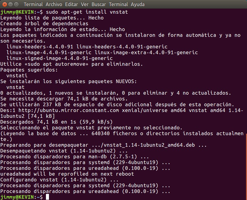 Installing vnstat on Ubuntu 16 with apt-get command (default system repository).